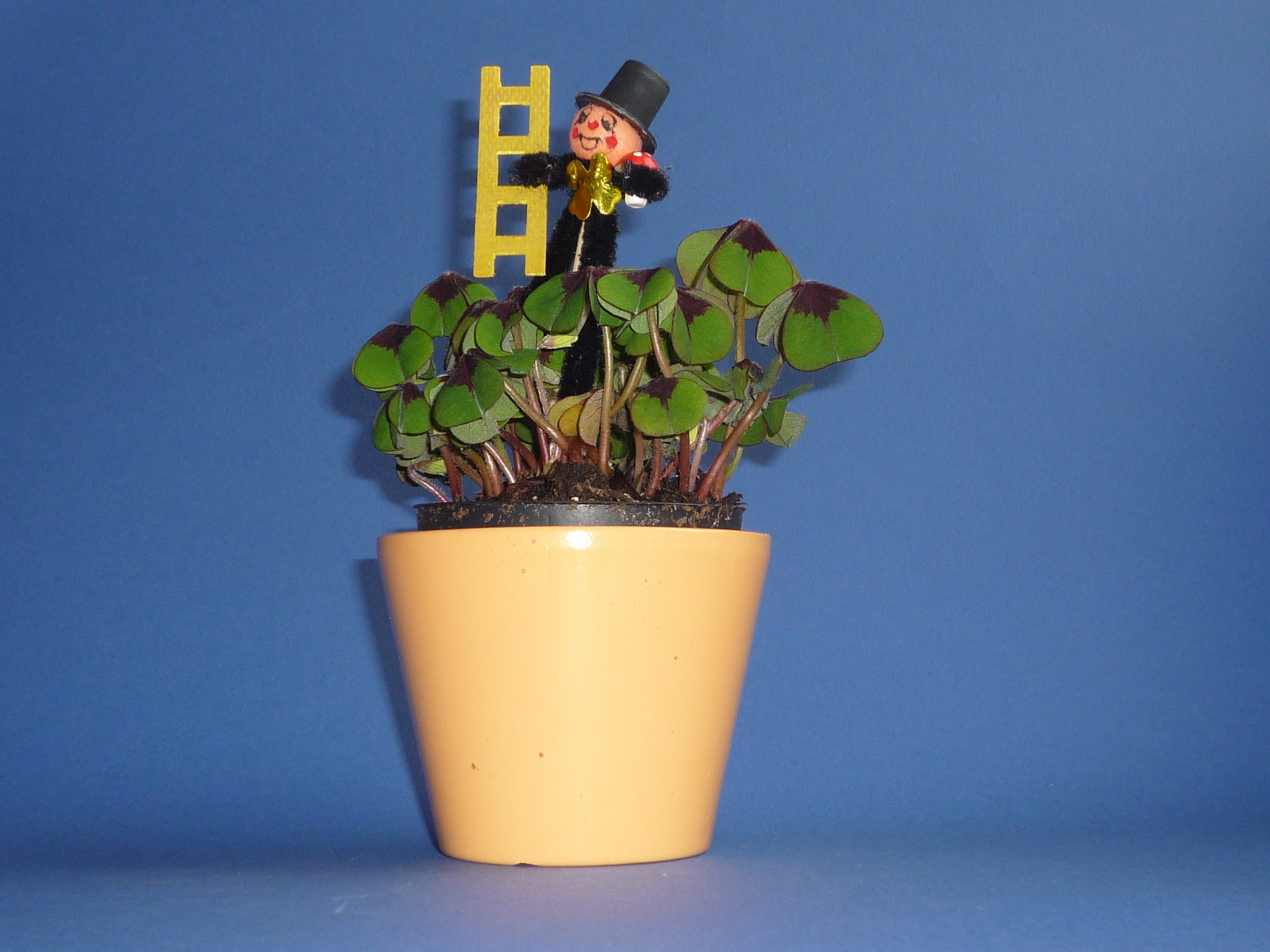 chimney sweeper